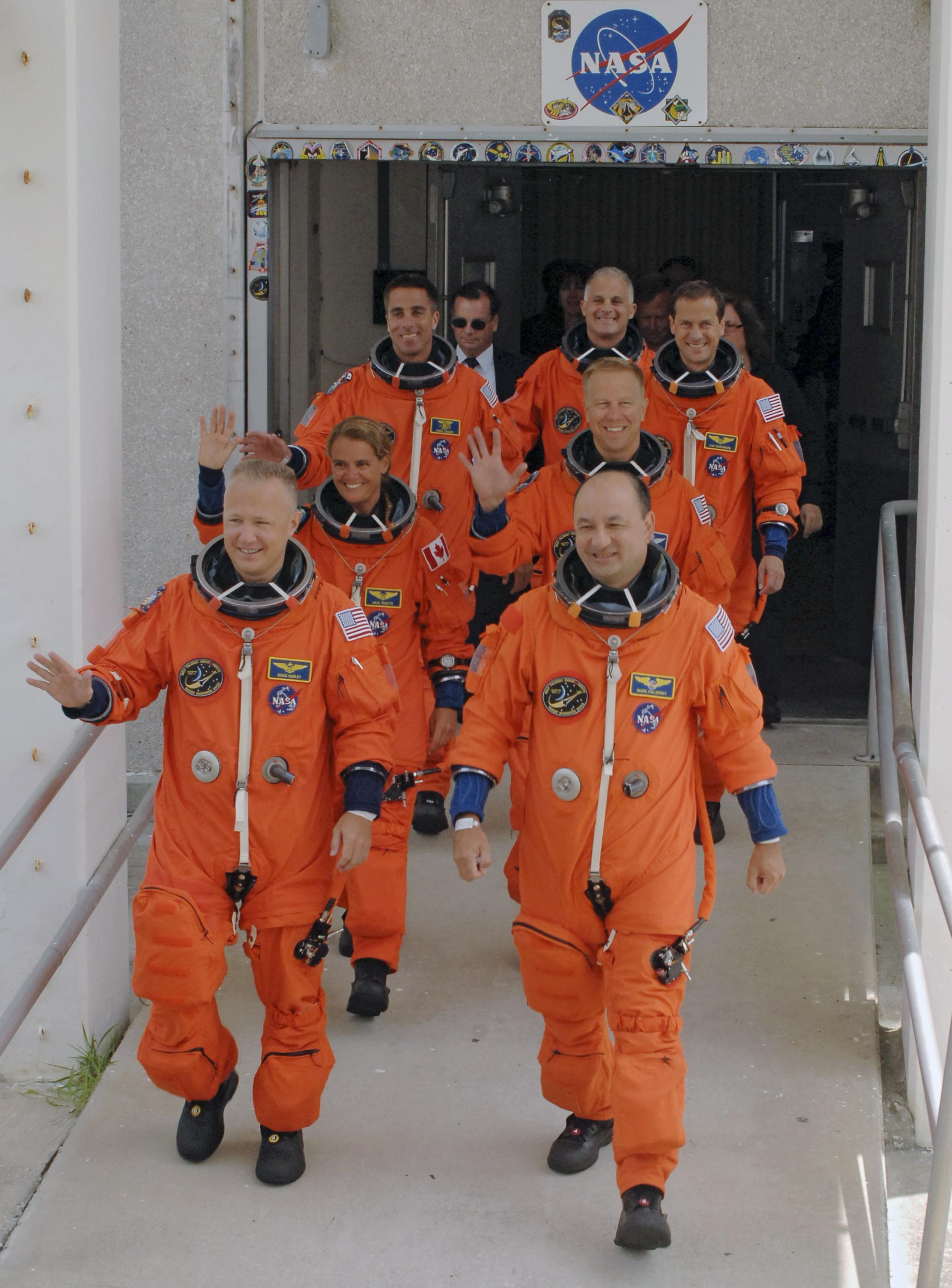 The STS-127 crew members stride eagerly out to the Astrovan for a ride to Launch Pad 39A.